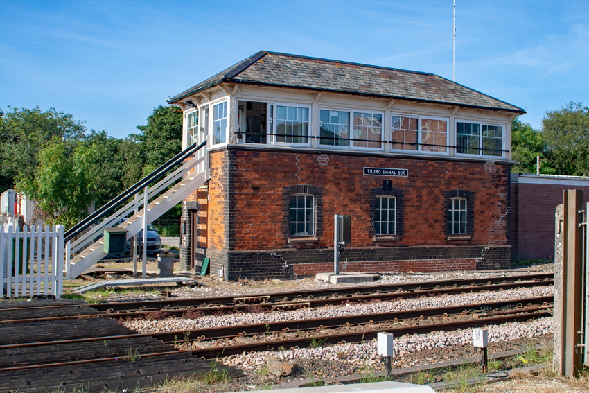 ex GWR type 7A Truro signal box, formerly named Truro East.